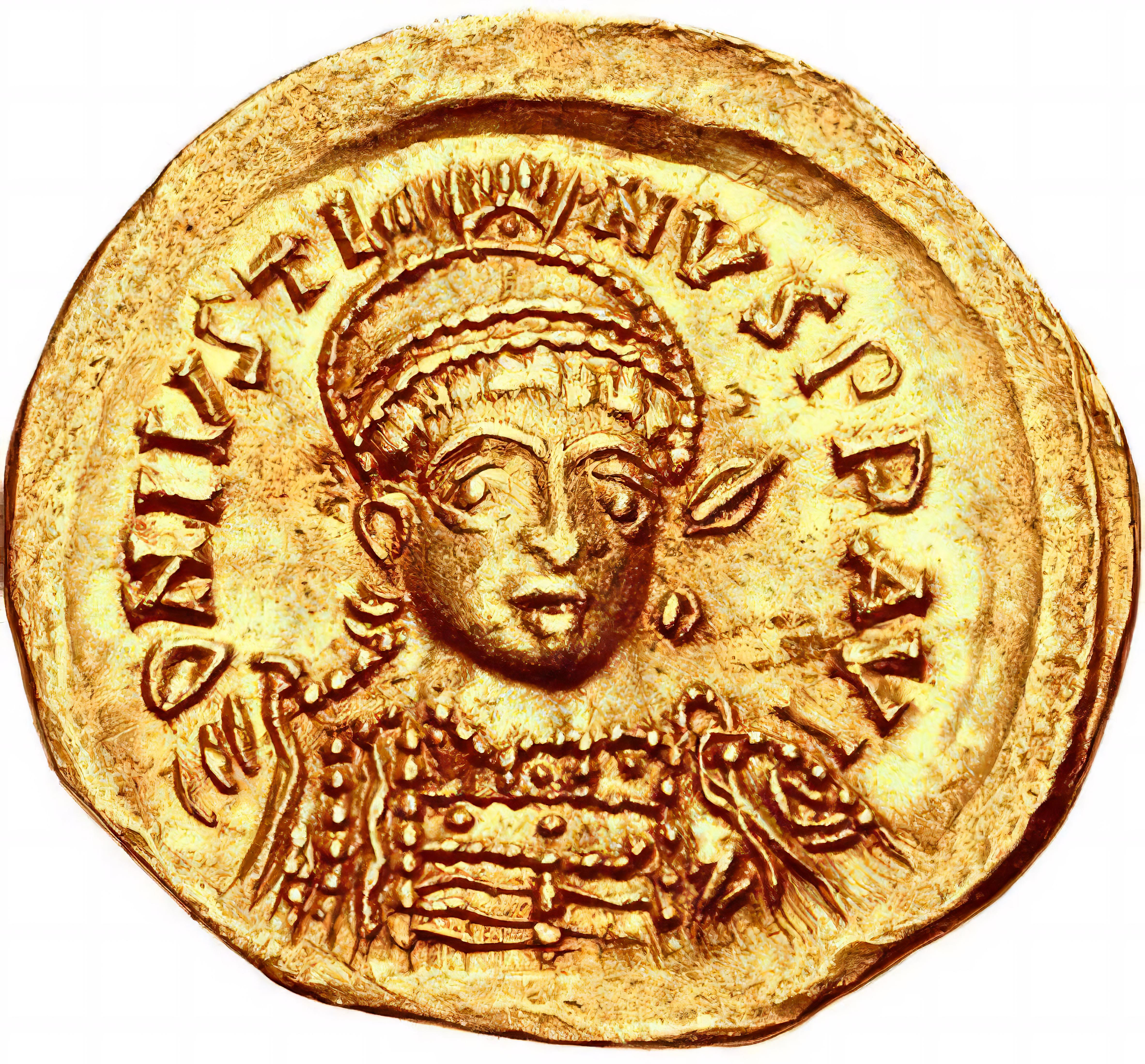 Justin I. 518-527. AV Solidus (21mm, 4.22 g, 6h). Constantinople mint, 4th officina. Struck 522-527. D N IVSTI NVS P P AVC, helmeted and cuirassed bust facing slightly right, holding spear over shoulder in right hand and shield decorated with horseman motif in left. DOC 2d; MIBE 3; SB 56.